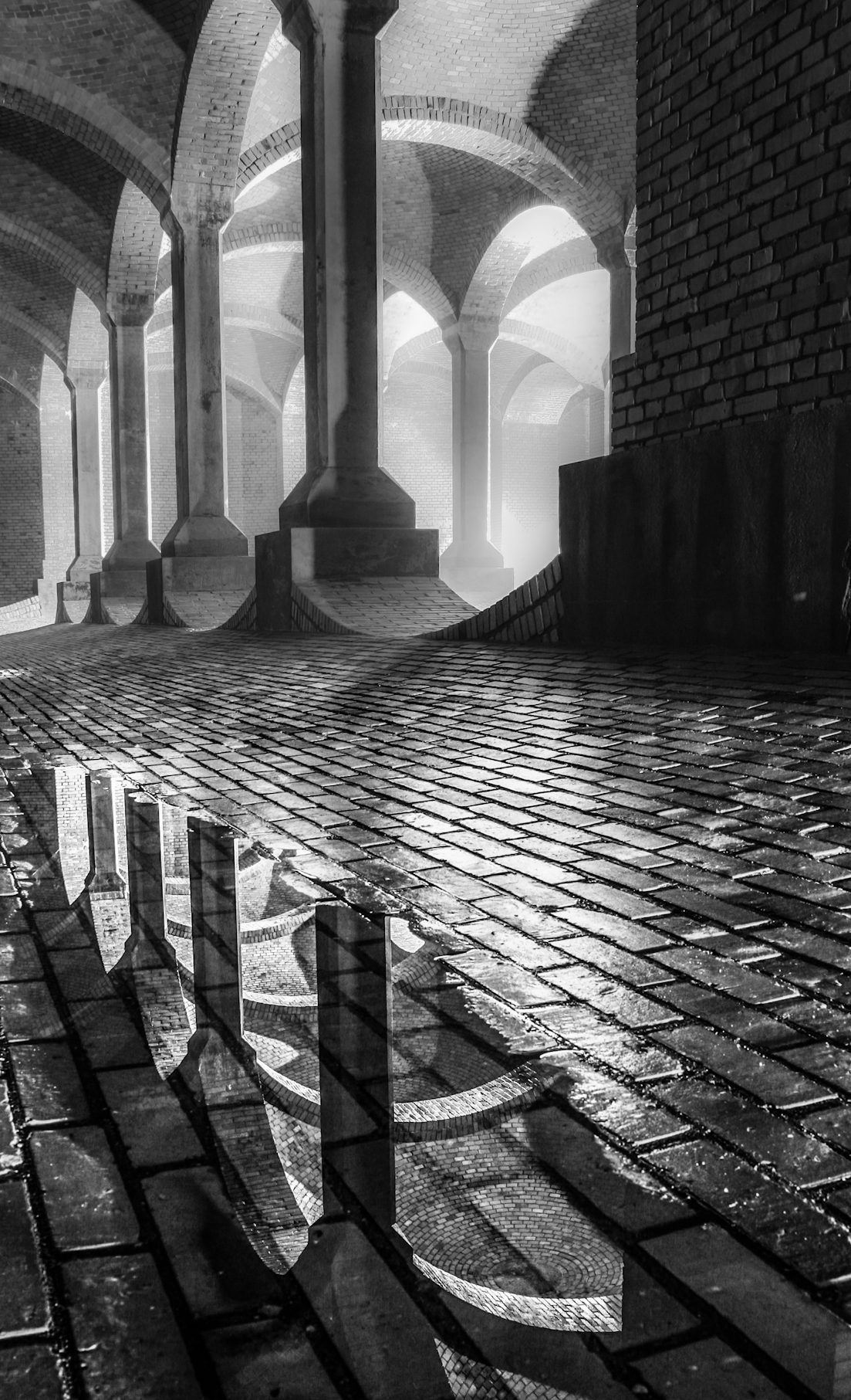 Underground water tanks in Stoki, Łódź